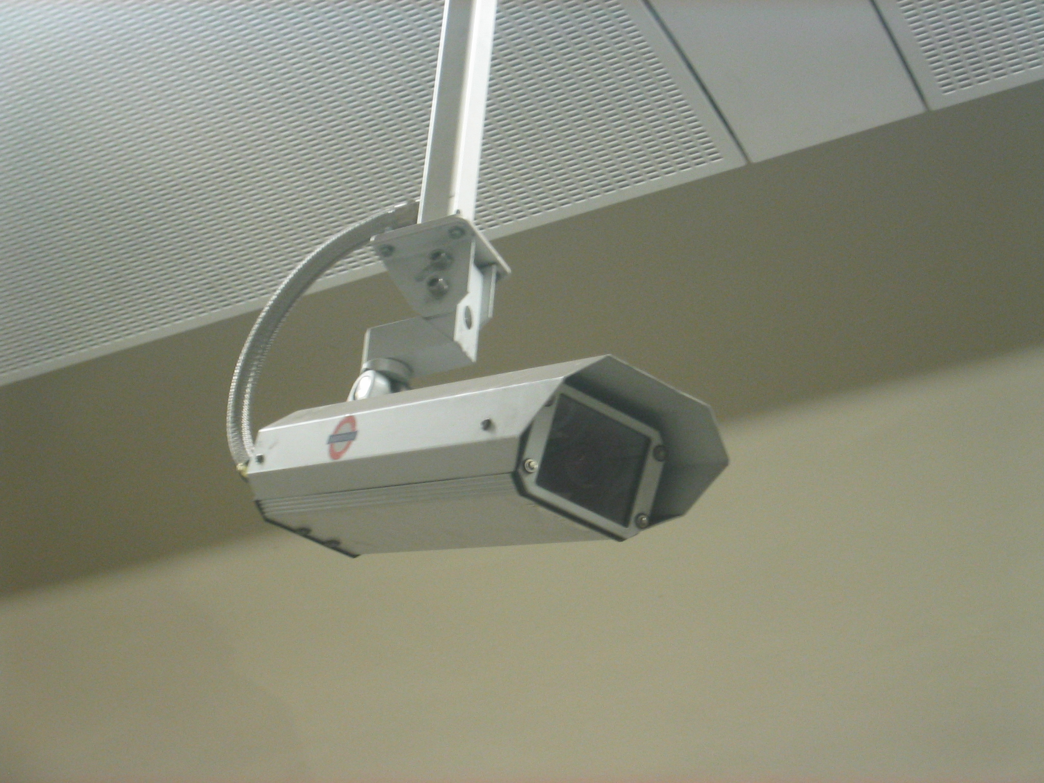 London